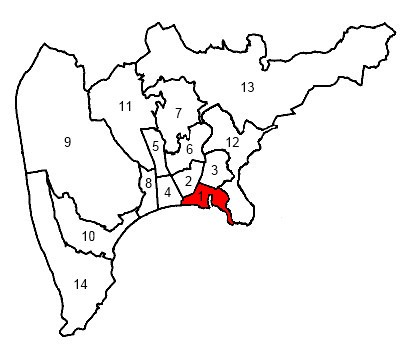 Location of canton of Nice-1 in the city of Nice, Alpes-Maritimes, France.